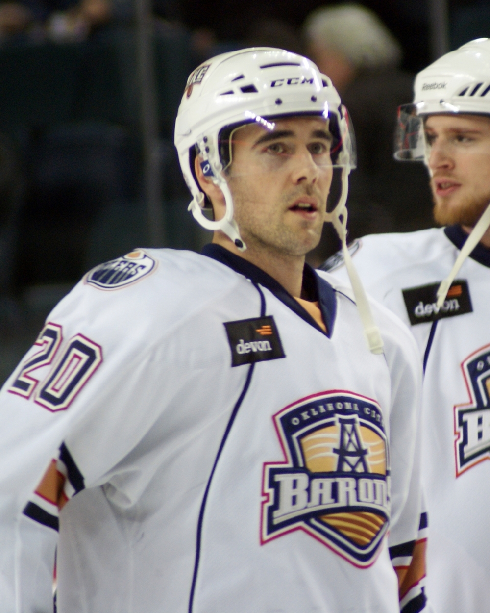 Brad Moran, born March 20, 1979 in Abbotsford, British Columbia, is a Canadian professional ice hockey forward. He was selected by the Buffalo Sabres in the 7th round, 191st overall, of the 1998 NHL Entry Draft. He has played in the National Hockey League (NHL) with the Columbus Blue Jackets and Vancouver Canucks. Photo was taken on February 18, 2011 during an American Hockey League (AHL) regular season game.